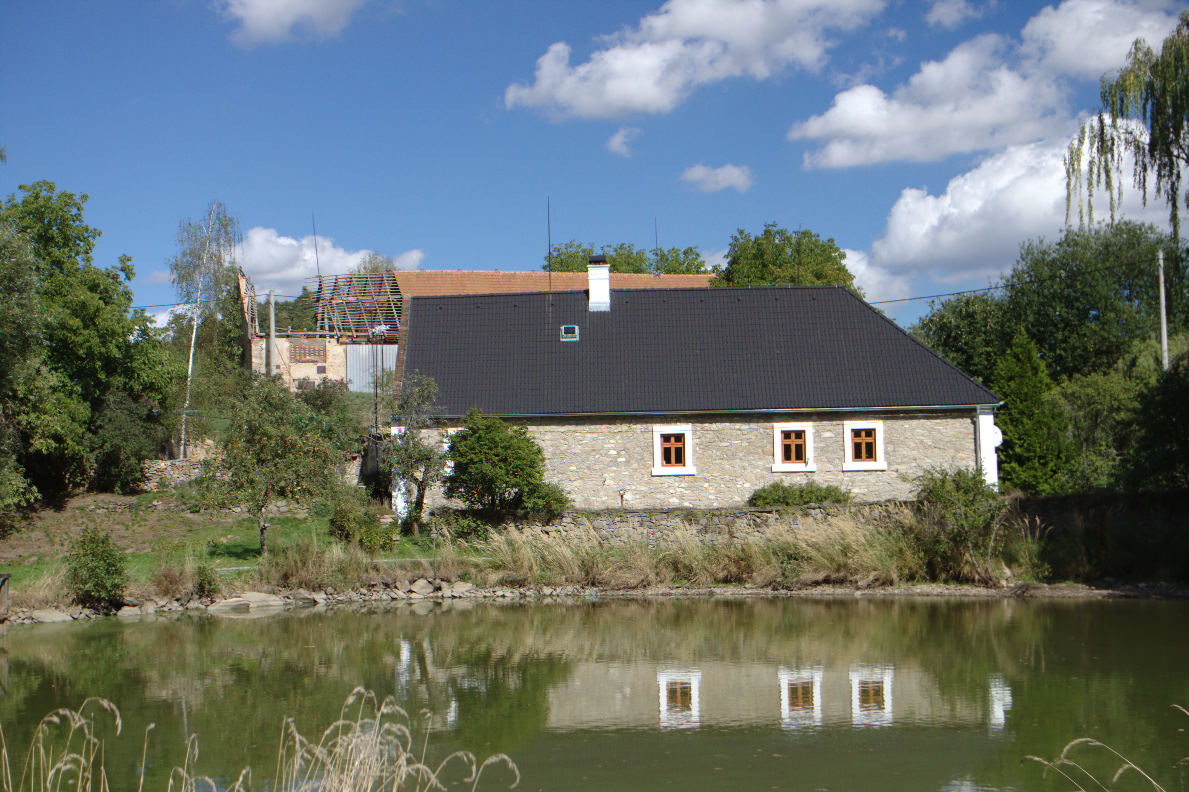 A building next to a pond in the village of Slavkov (near Olbramovice), Central Bohemian Region, CZ